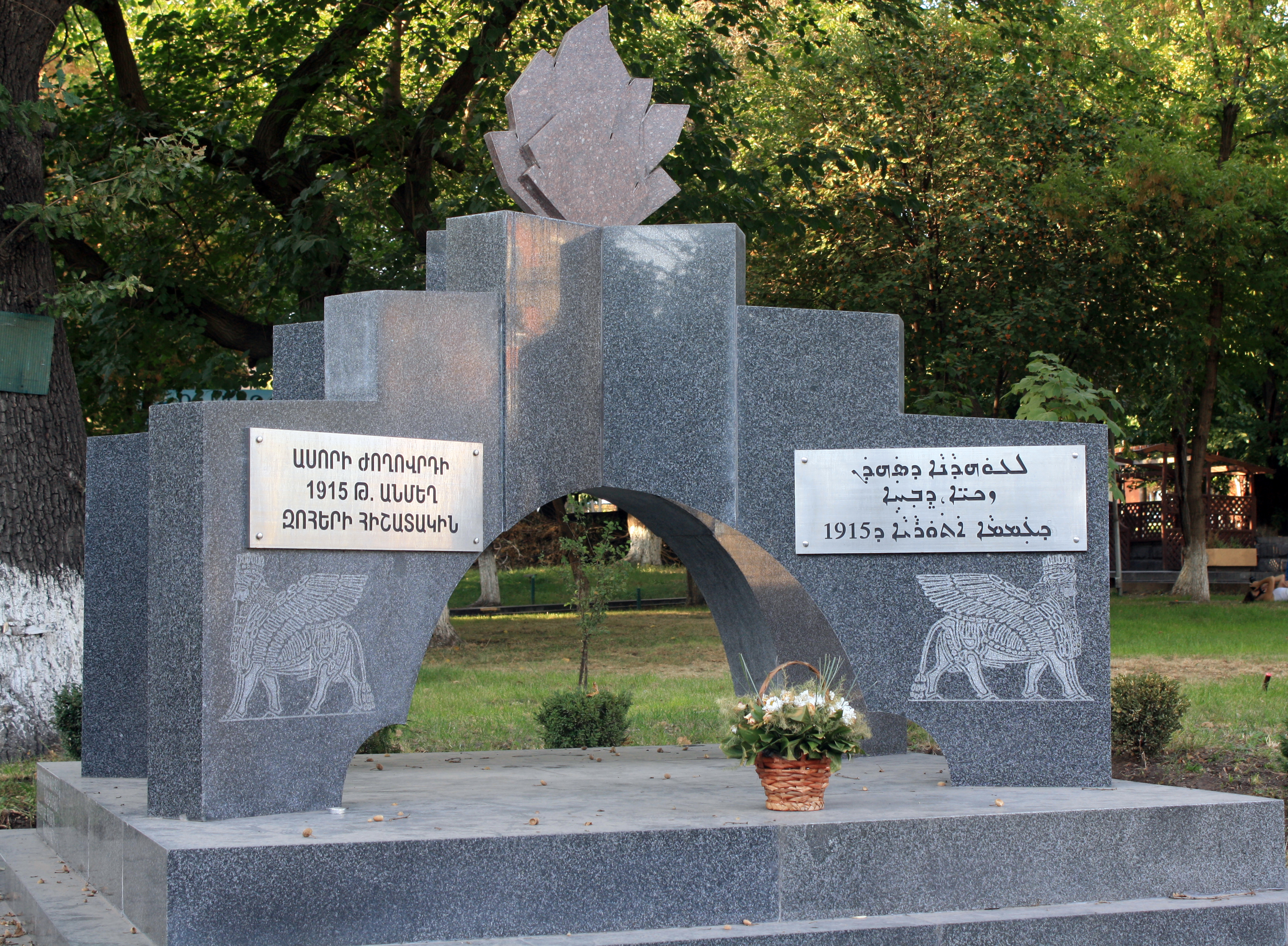 Ասորի ժողովրդի 1915թ. անմեղ զոհերի հիշատակին. Օղակաձև զբոսայգի